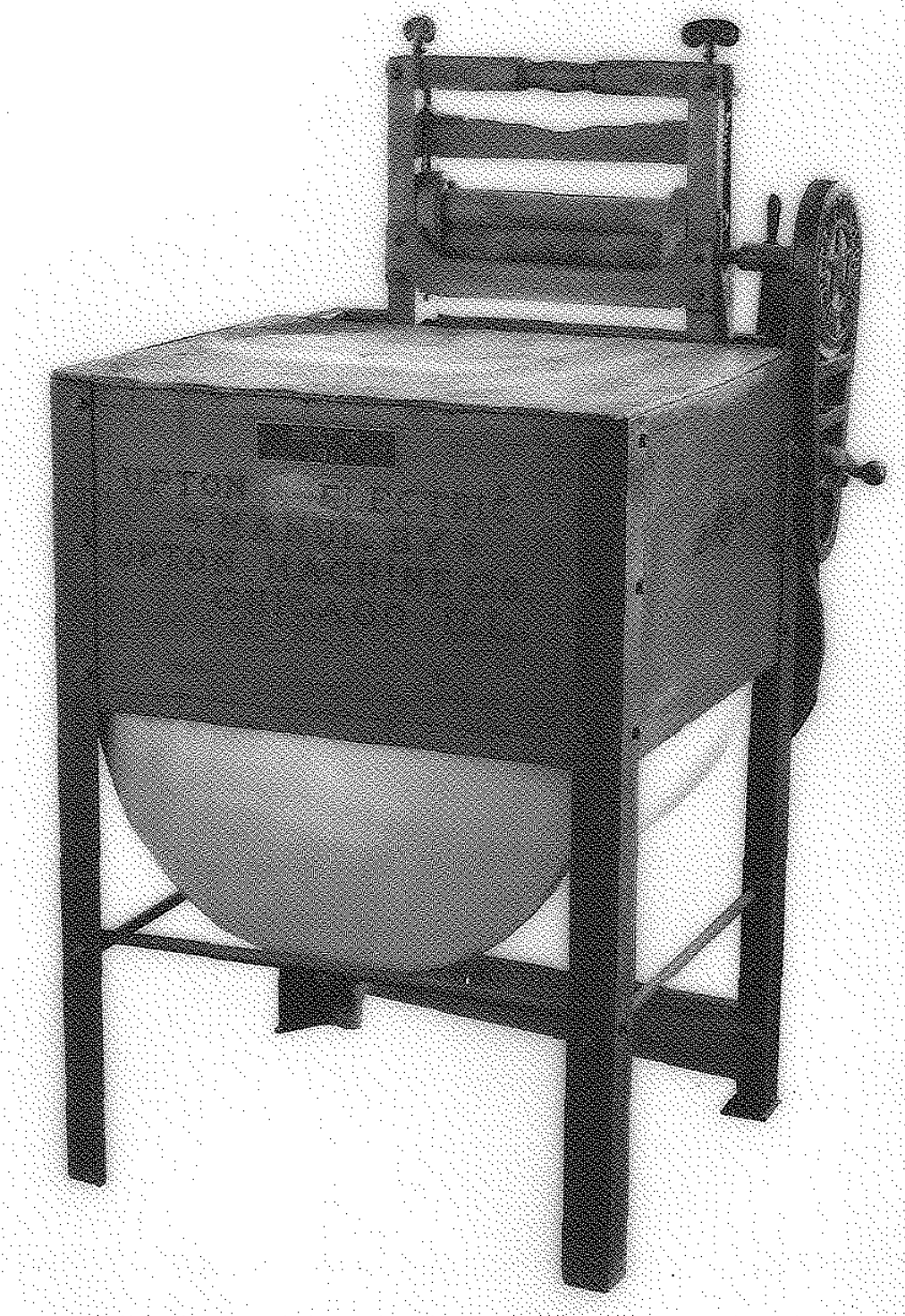 The original 1912 Upton Machine Company motor-driven electric wringer washer